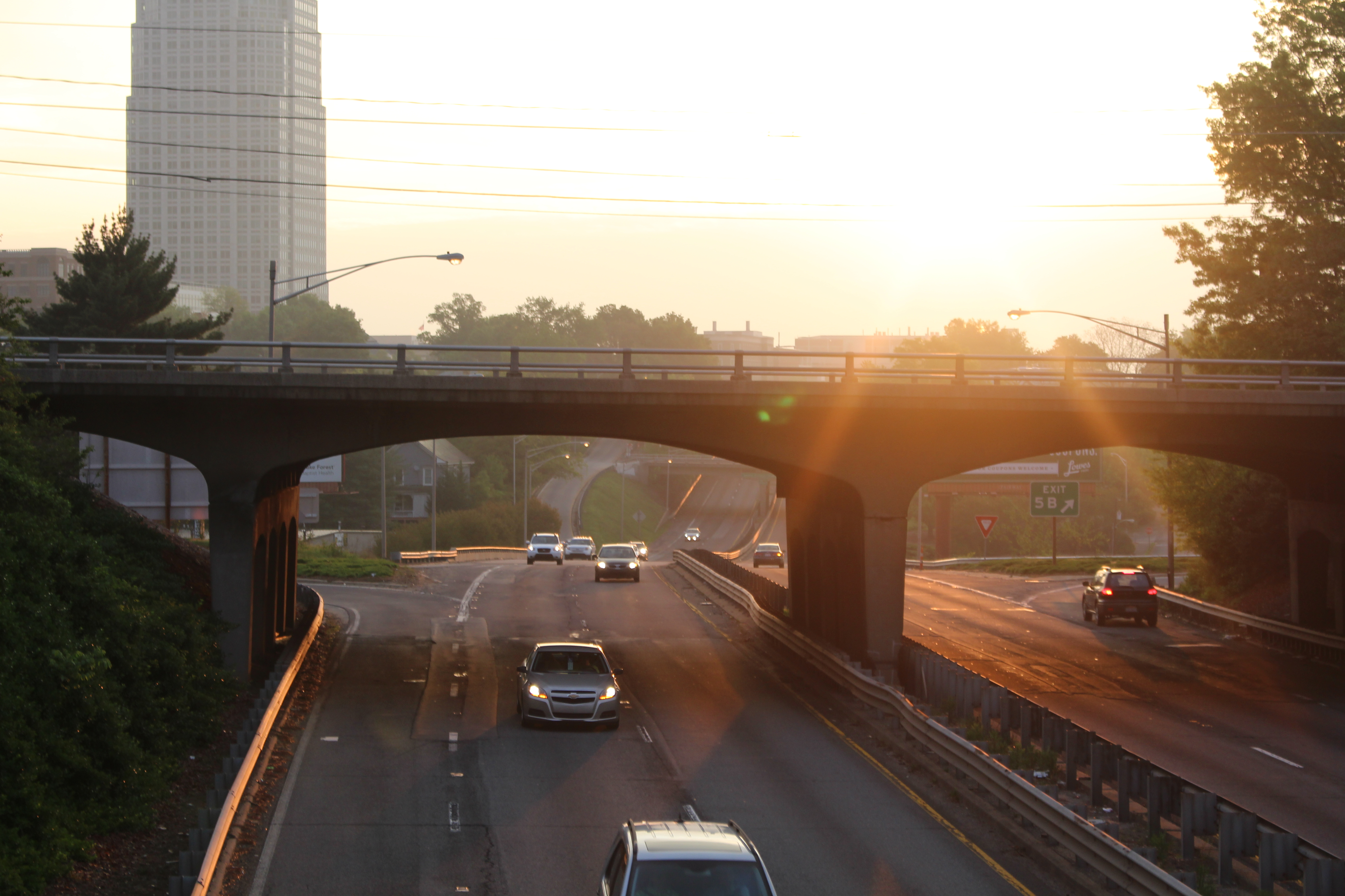 Sunrise over Broad Street Bridge; facing east along Business 40/US 421, from South Green Street Bridge.